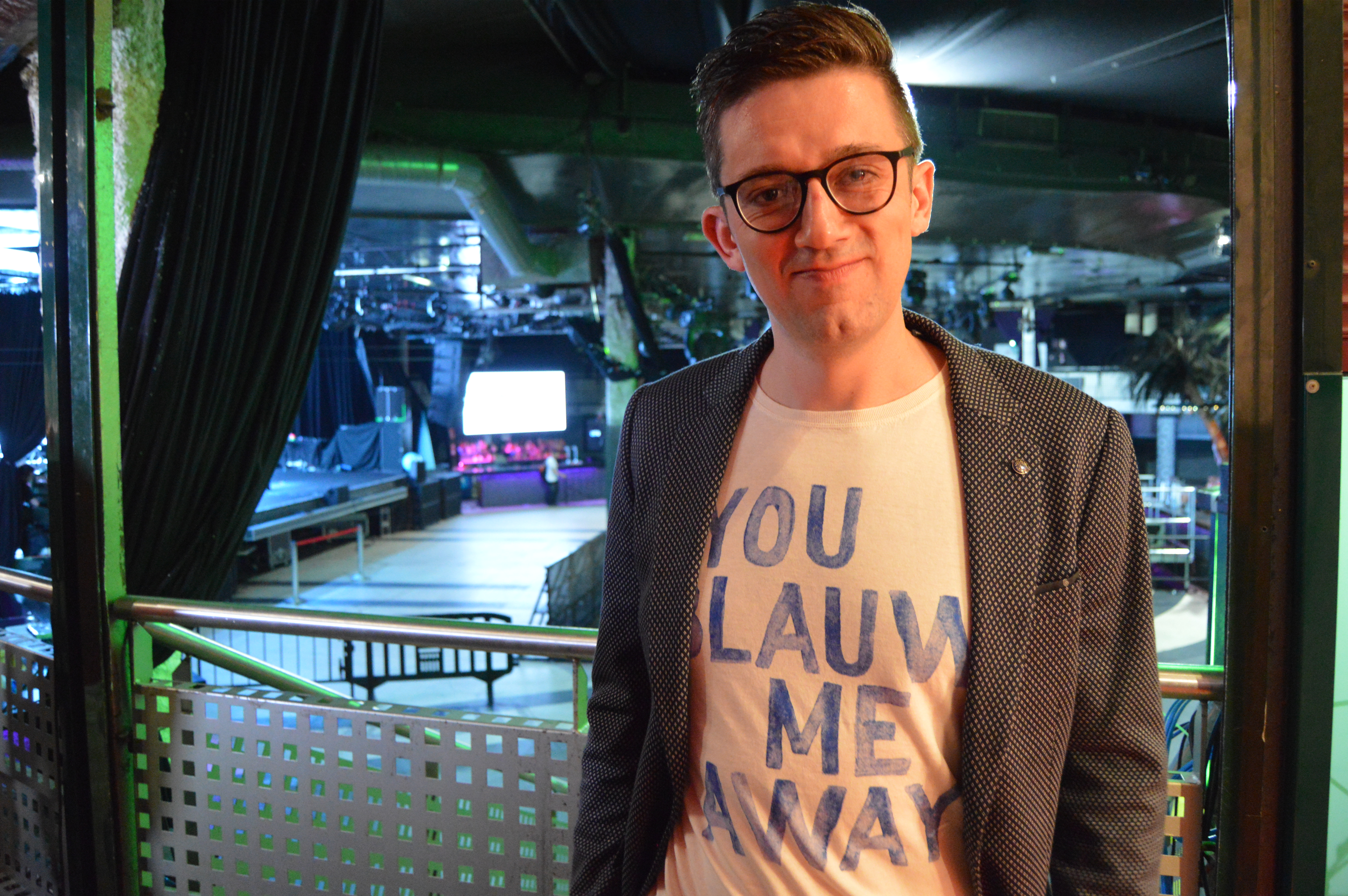 Montenegrin singer Vanja Radovanović at the Eurovision Spain PreParty in Madrid (April 2018)